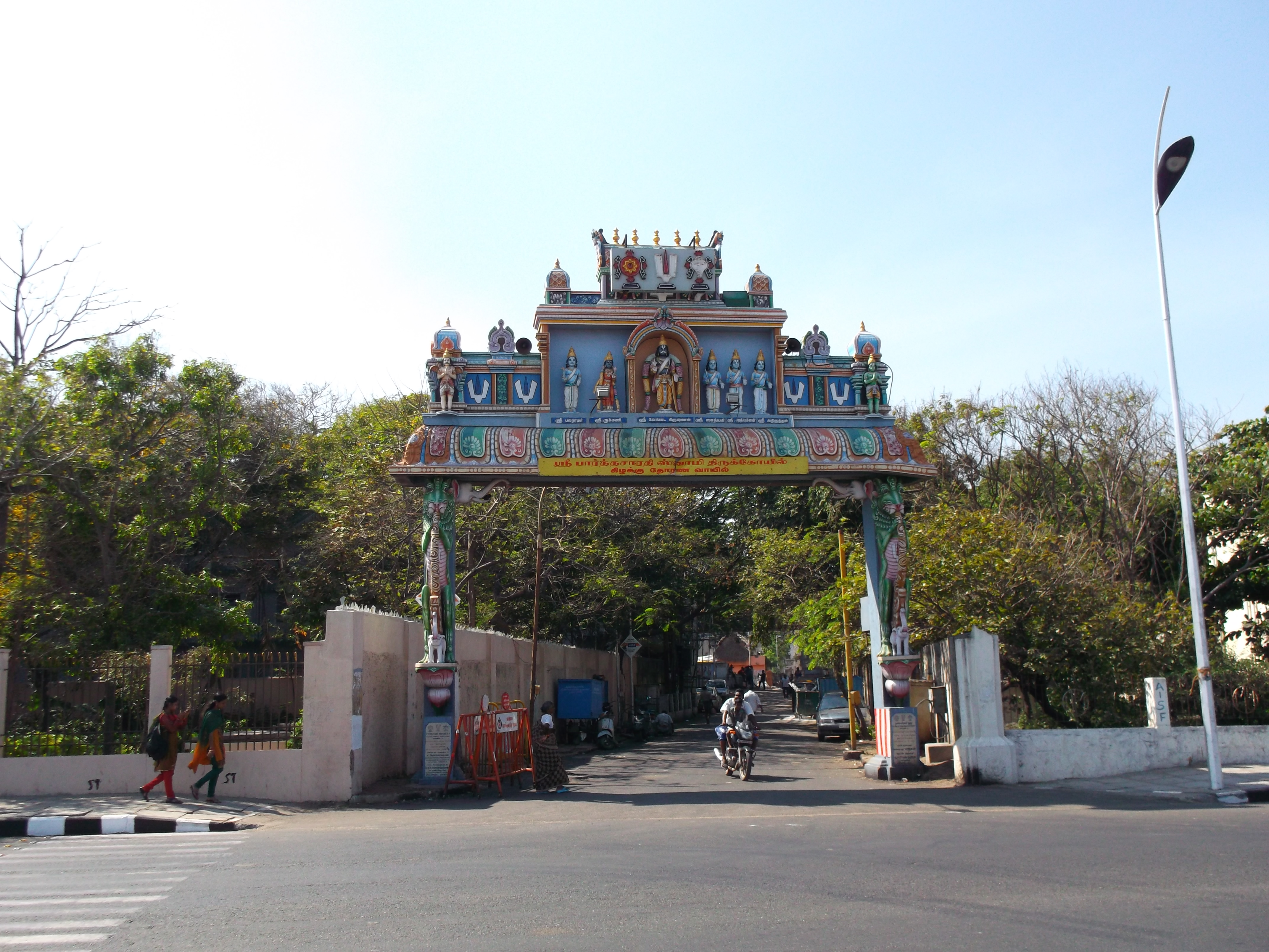 Triplicane Parthasarathy Temple, Eastern "Thorana" Entrance on Beach Road, taken on 2-Feb-2013, at 3:00 pm